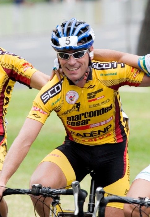 Brazilian road cyclist Márcio May right after the 2008 Copa América de Ciclismo. He retired after this race.